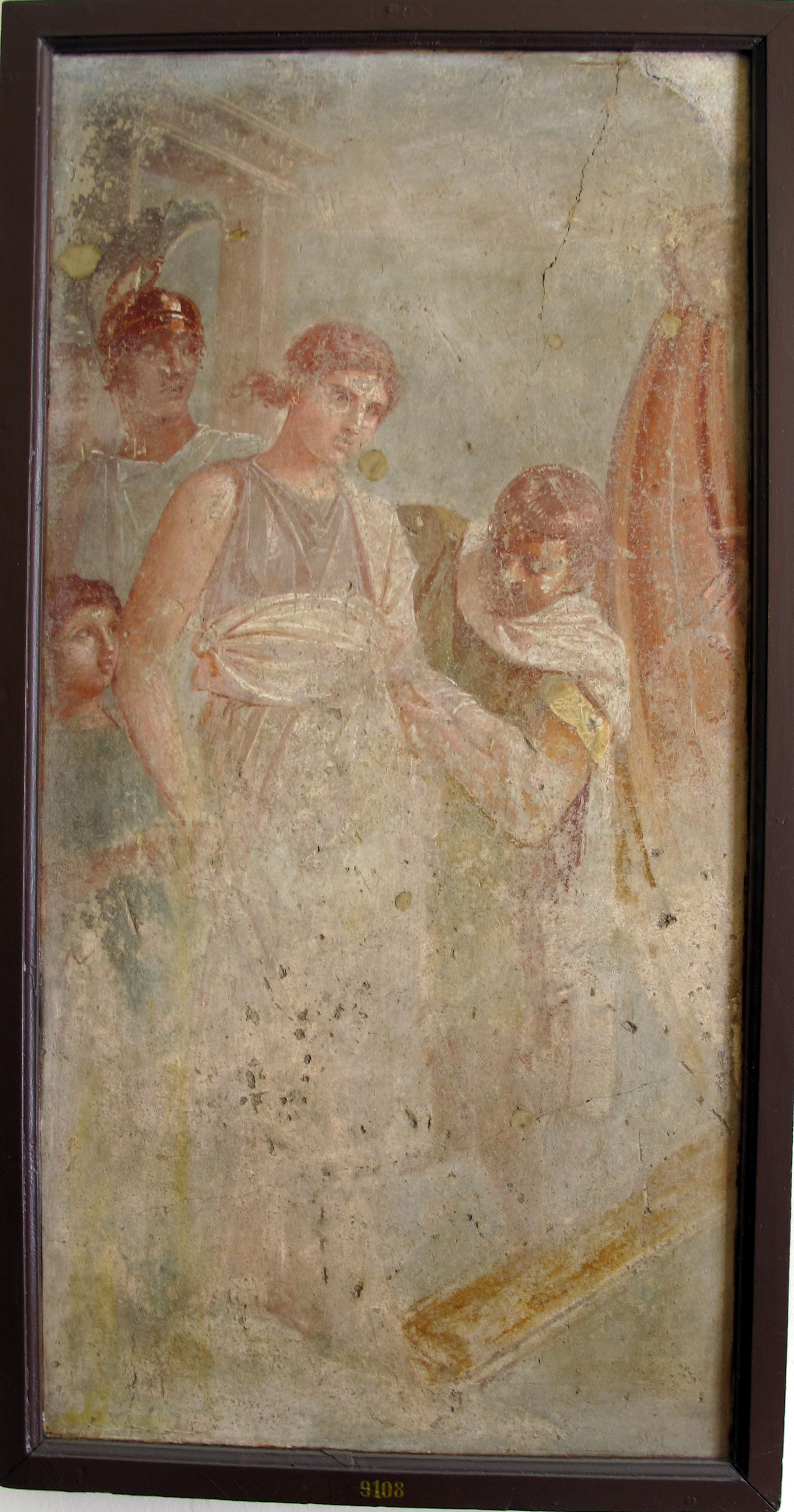 Ancient Roman frescos in the Museo Archeologico (Naples)